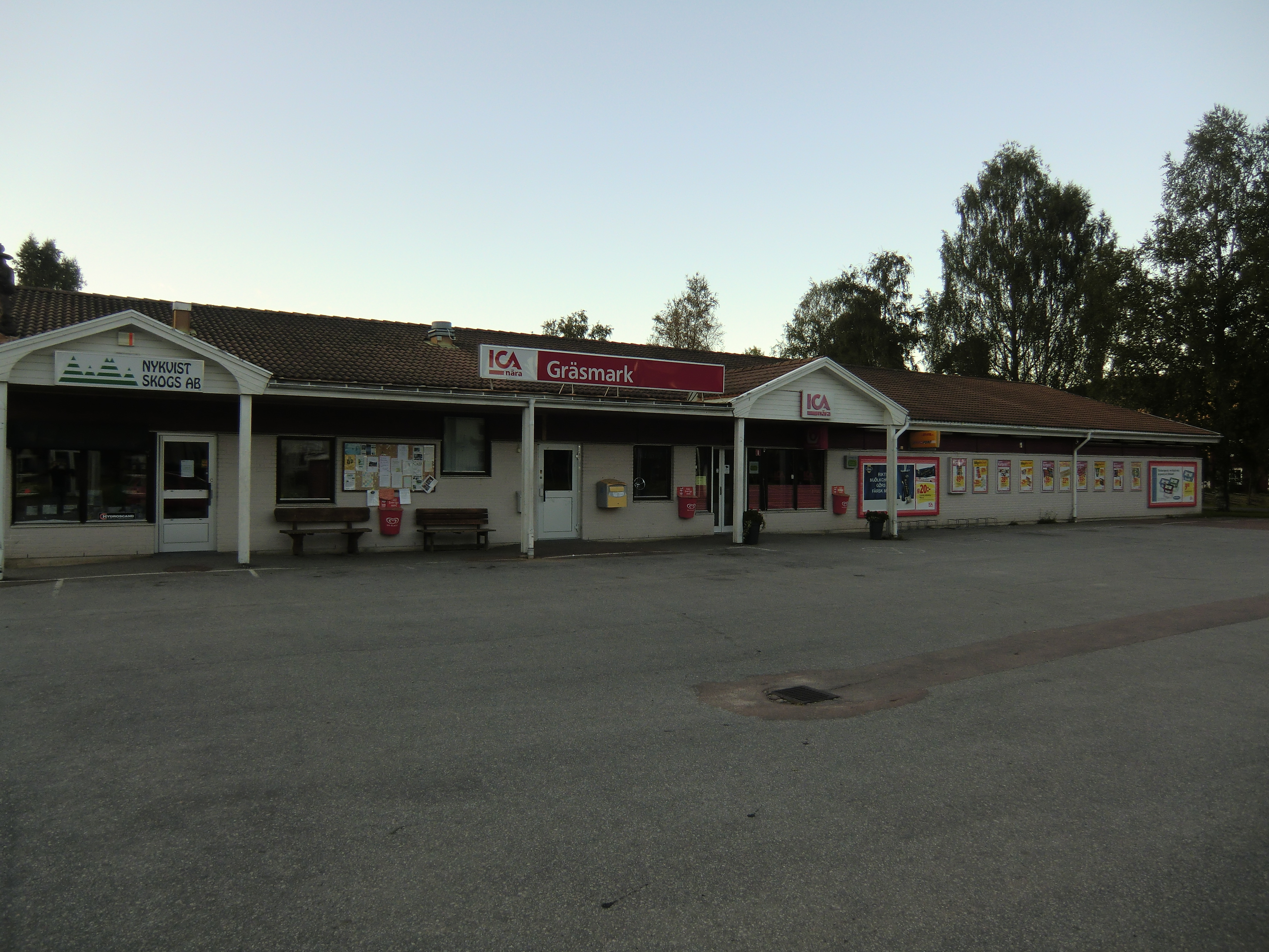 The grocery store in Gräsmark, Värmland, Sweden.